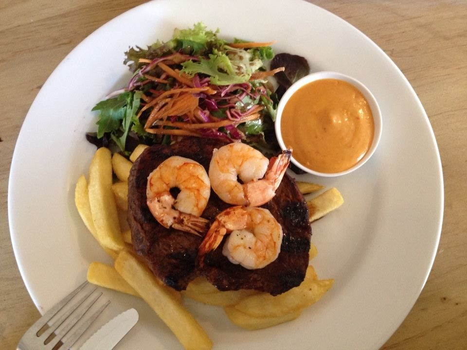 Surf and turf: steak and three prawns, served with spicy mayonnaise and side salad.